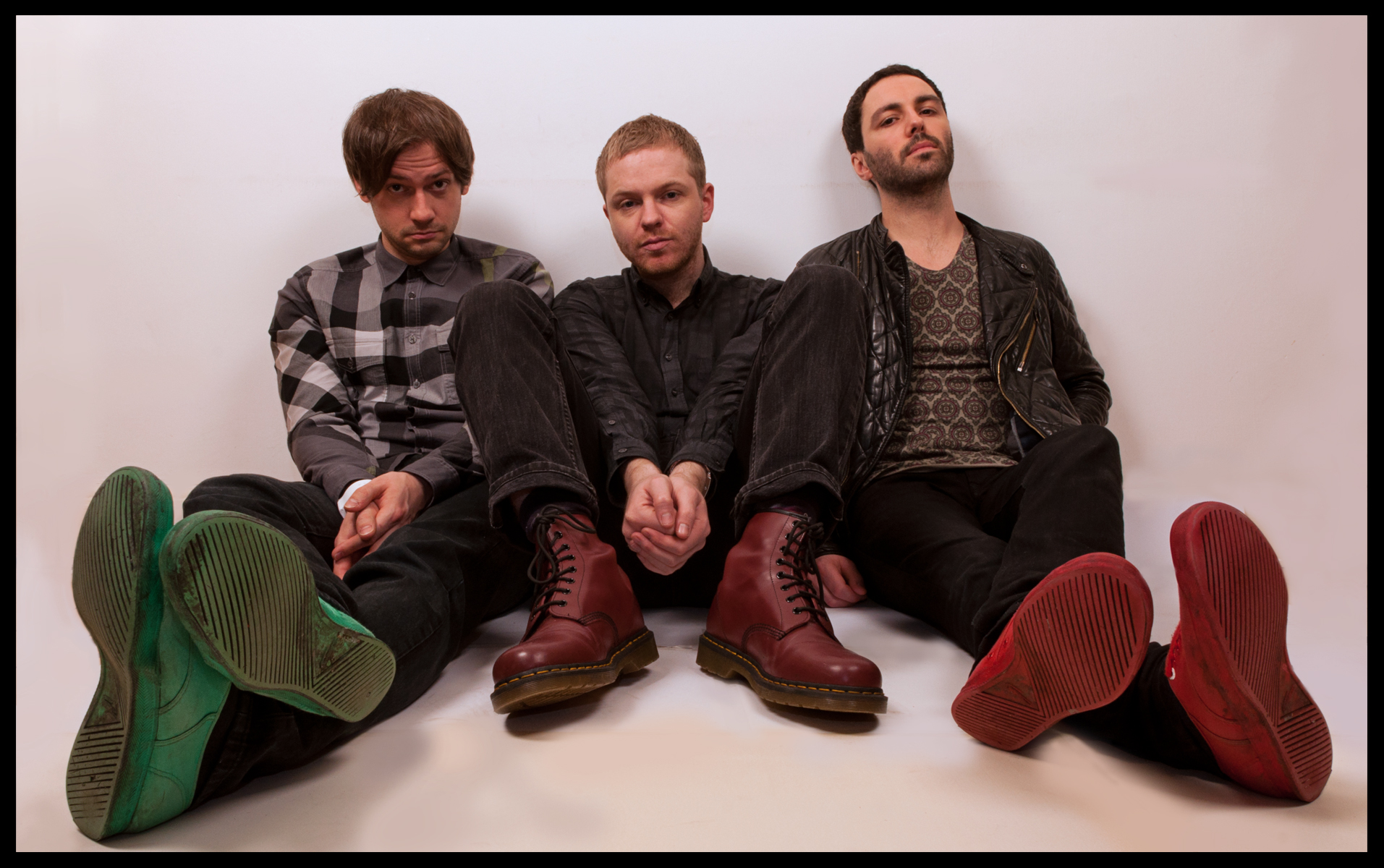 An updated photo of the three members of The Sunshine Underground